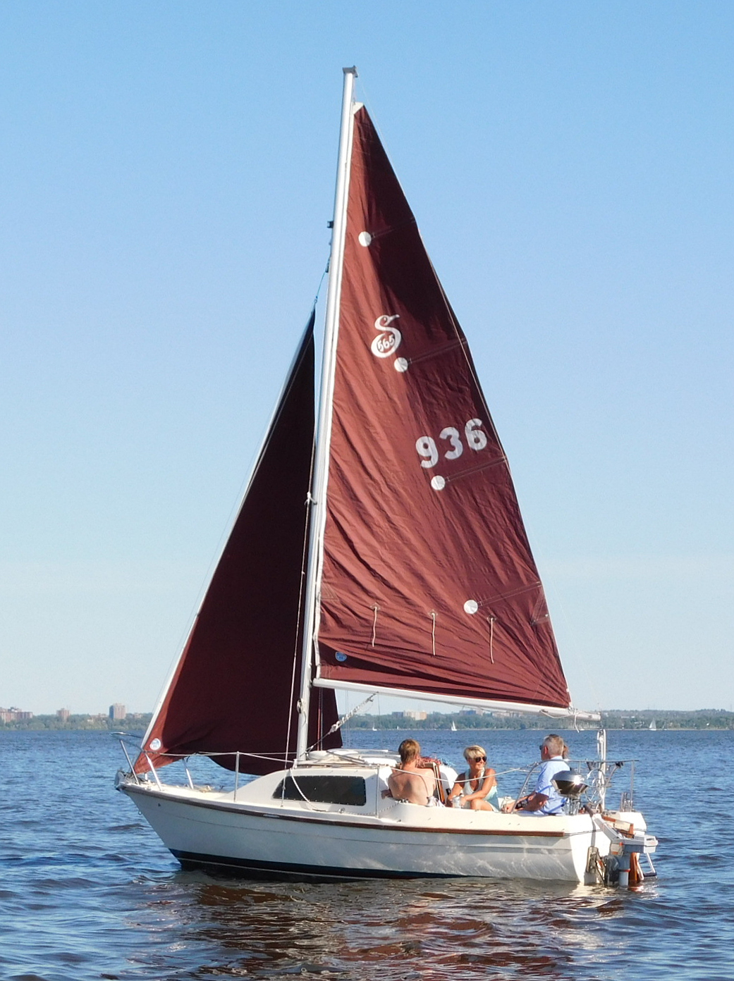 A Sandpiper 565 sailboat.